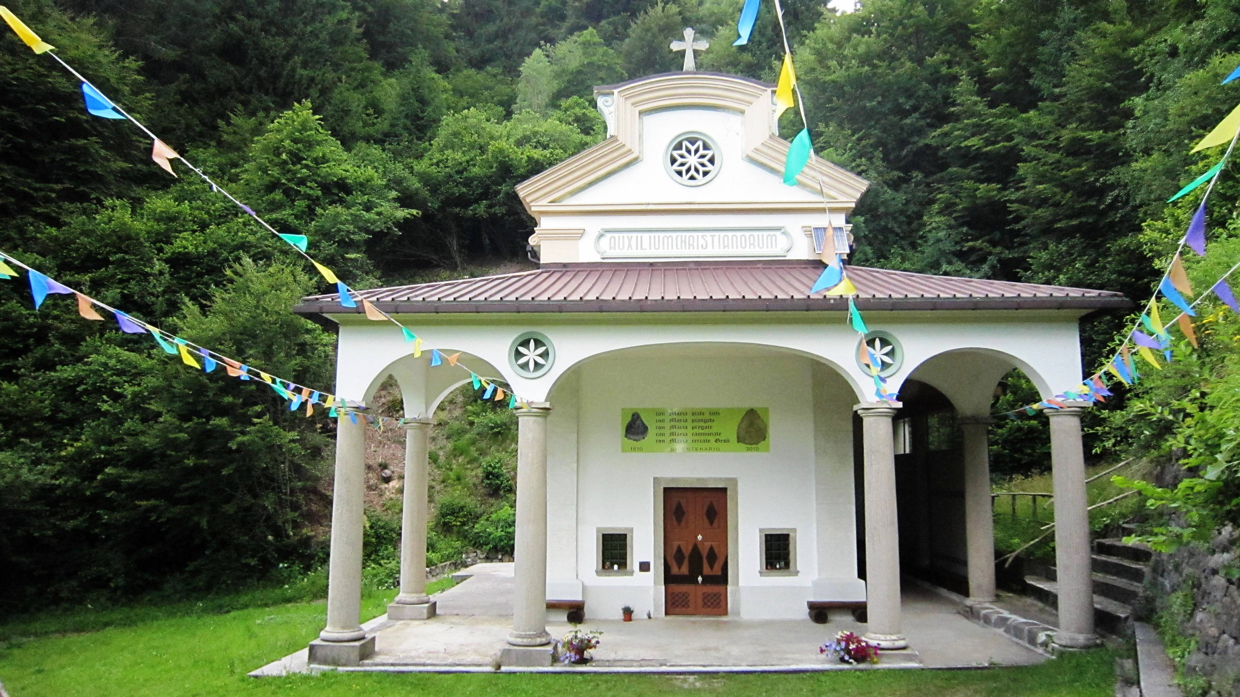 Paularo_madonna_del_sasso_chiesa